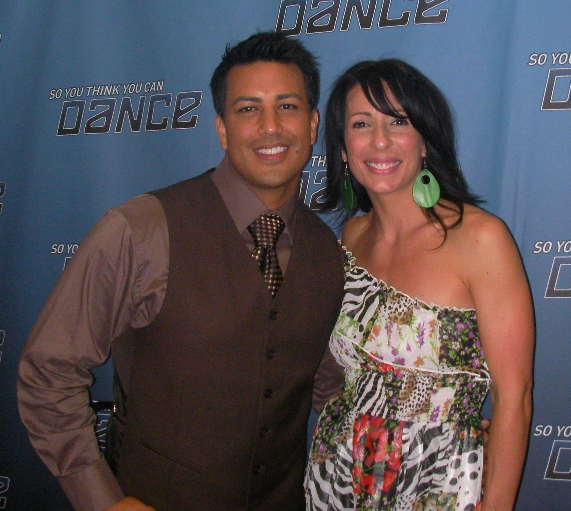 Choreographers/couple Napoleon & Tabitha D'Umo at the "So You Think You Can Dance" season four finale, backstage after the show